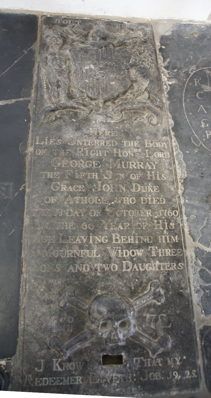 Graveslab of Lord George Murray (died 1760) in the Sint-Bonifaciuskerk in Medemblik, The Netherlands.